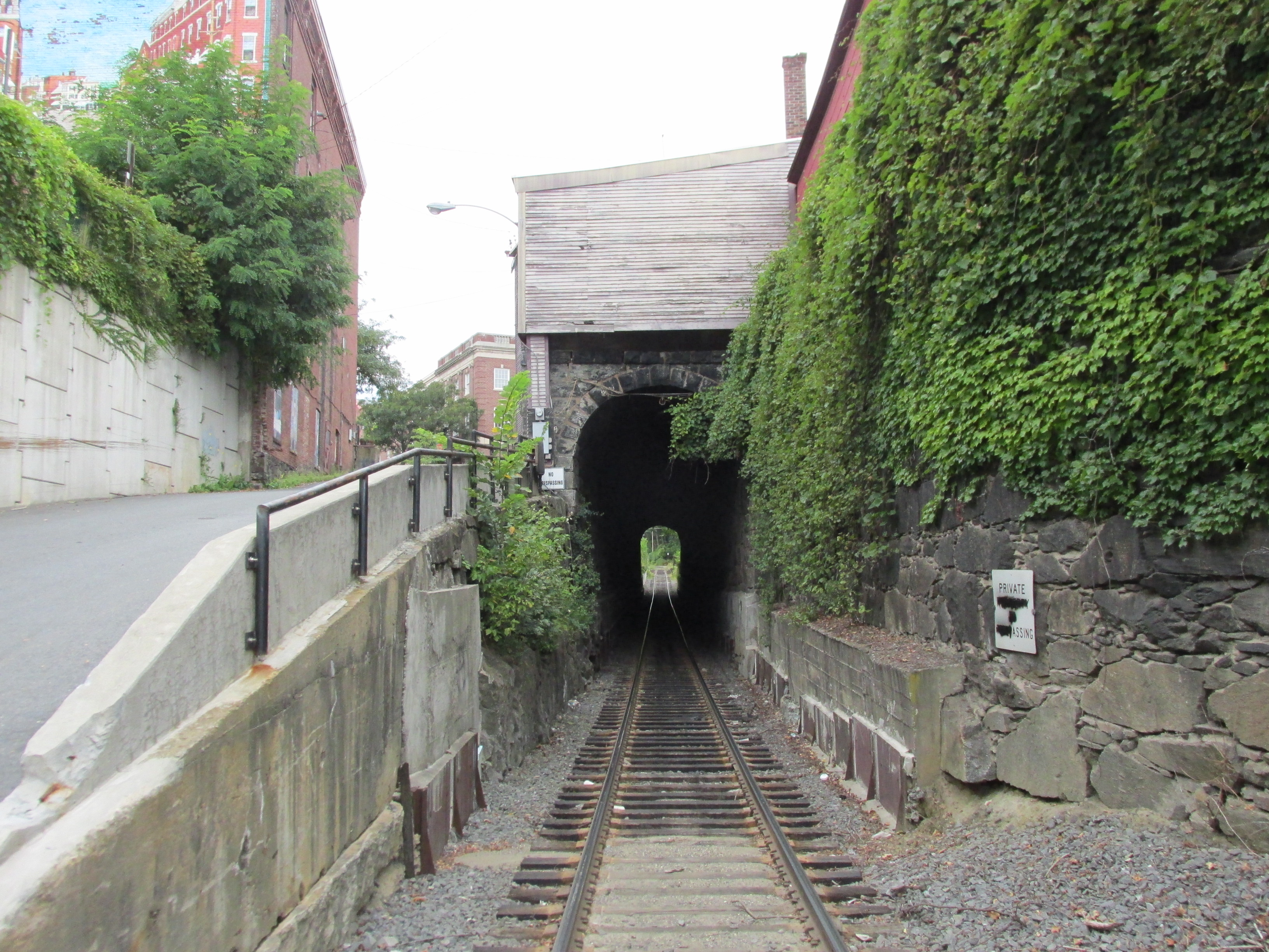 Railroad tunnel in the Bellows Falls Downtown Historic District, Bellows Falls Vermont